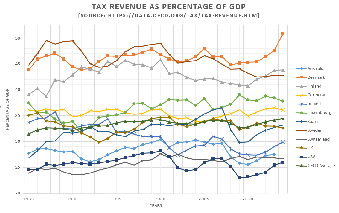 This image shows a graph of tax revenue as a percentage of GDP for ten states and the OECD average for the years 1985-2014 (Australia 1985-2013). The countries included are Australia, Denmark, Finland, Germany, Ireland, Luxembourg, Sweden, Switzerland, the United Kingdom, and the United States. Created using data from the OECD available at